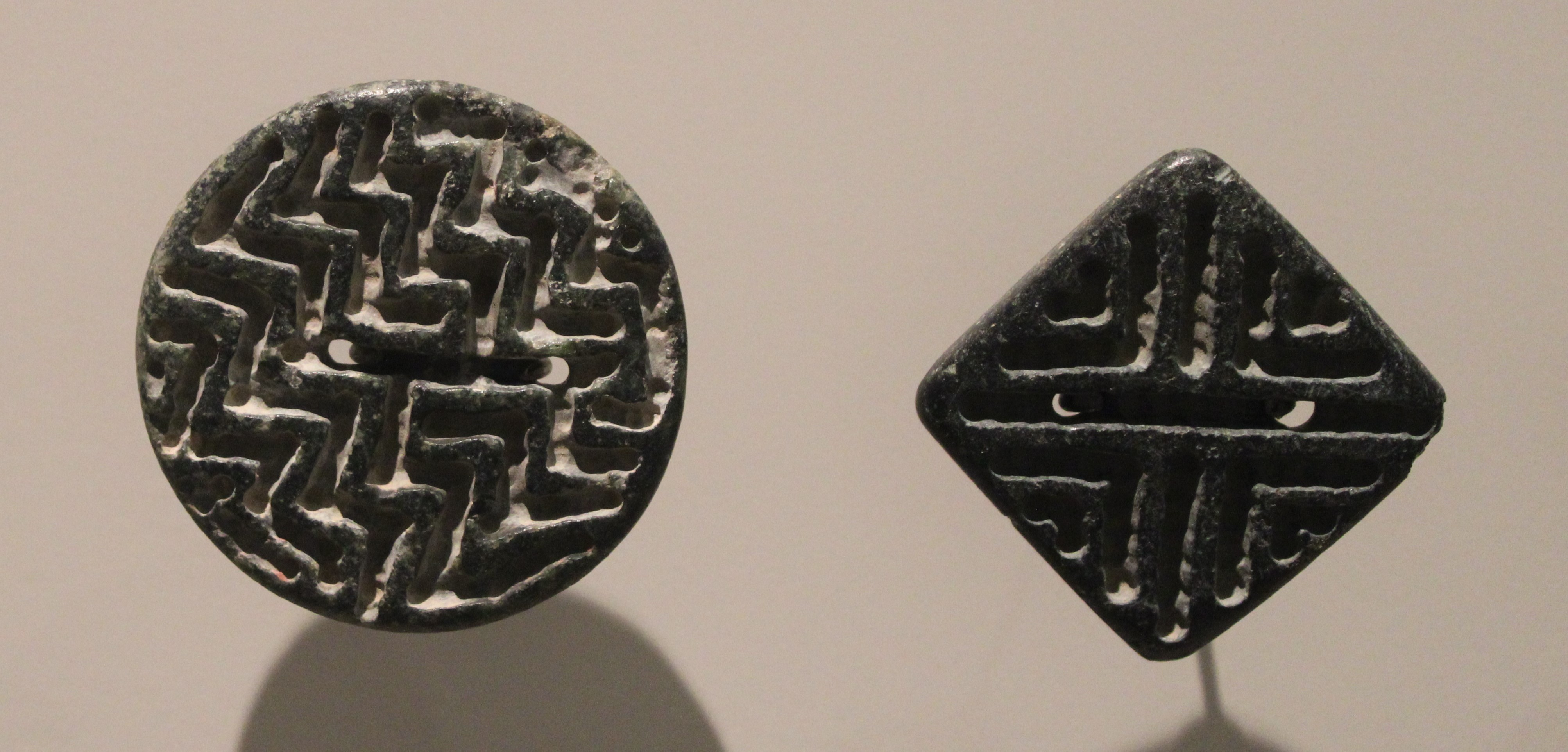 Stone seals from Mundigak (Afghanistan), period IV, c. 2700 BC. Musée Guimet.